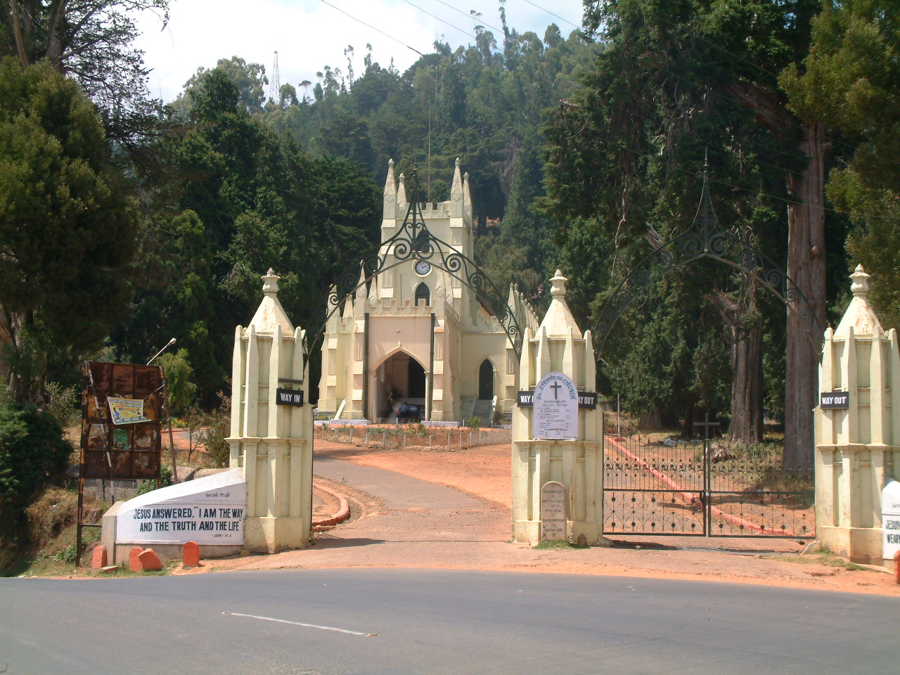 St Stephens Church, Ooty